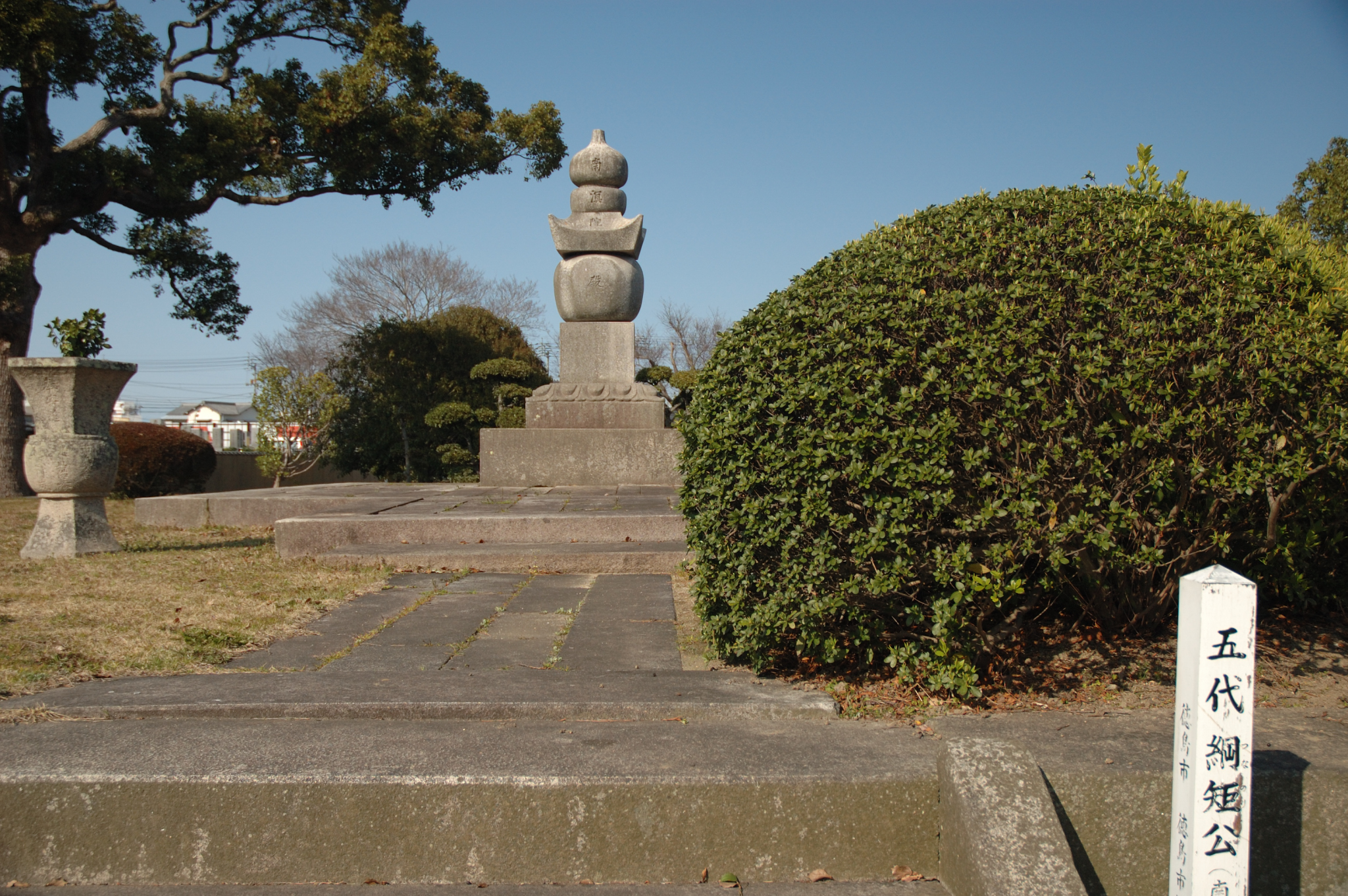 grave of Hachisuka Tsunanori(the fifth feudal lord)